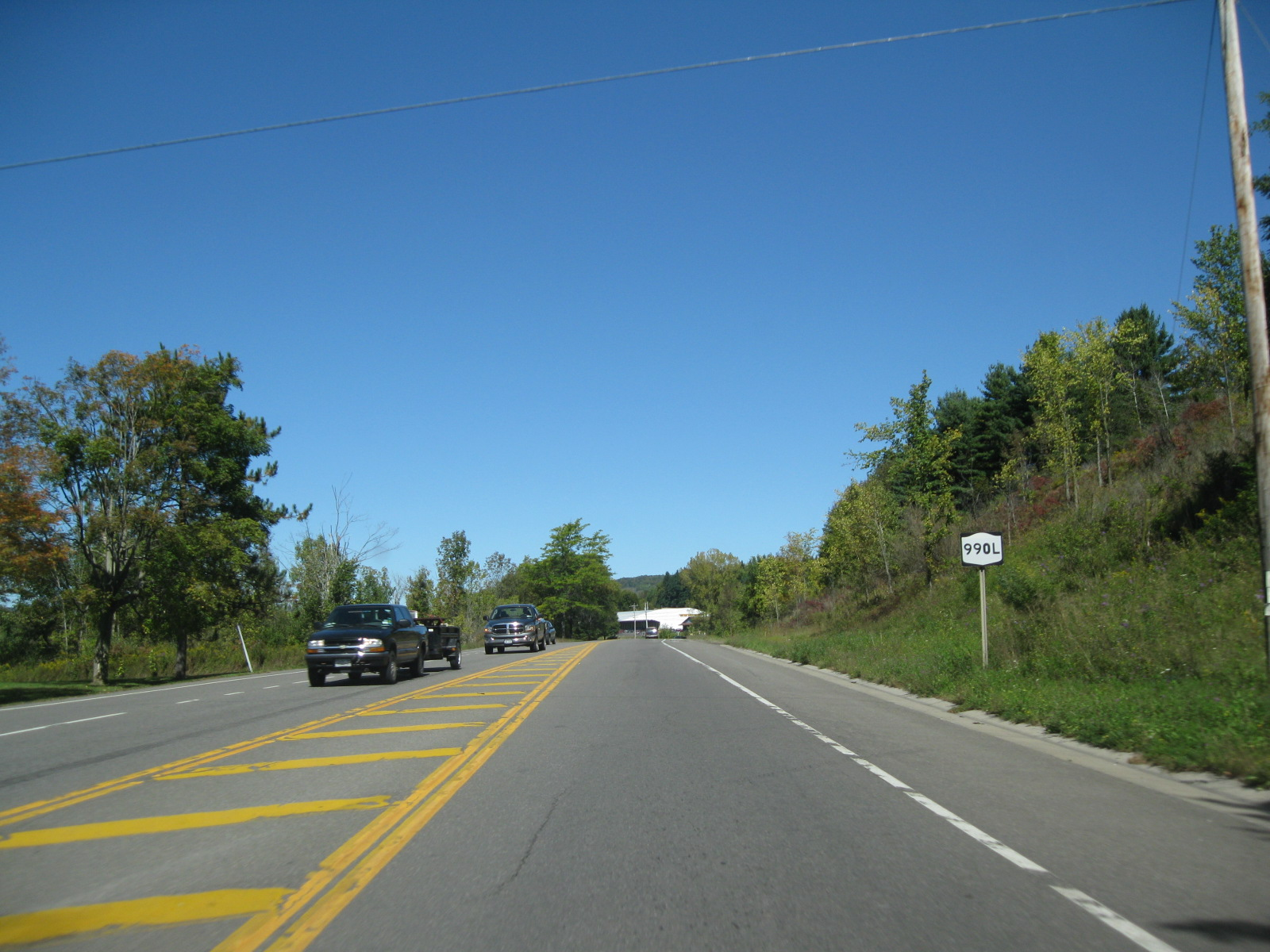 One of the two shields mismarking New York State Reference Route 990L in Norwich, New York. Note the unusual font on the shield.